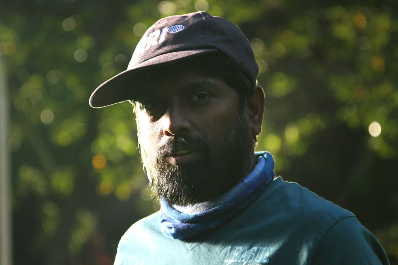 Srinivas Devamsam Cinematographer